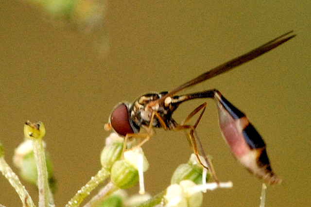 Baccha elongata from Commanster, Belgian High Ardennes .